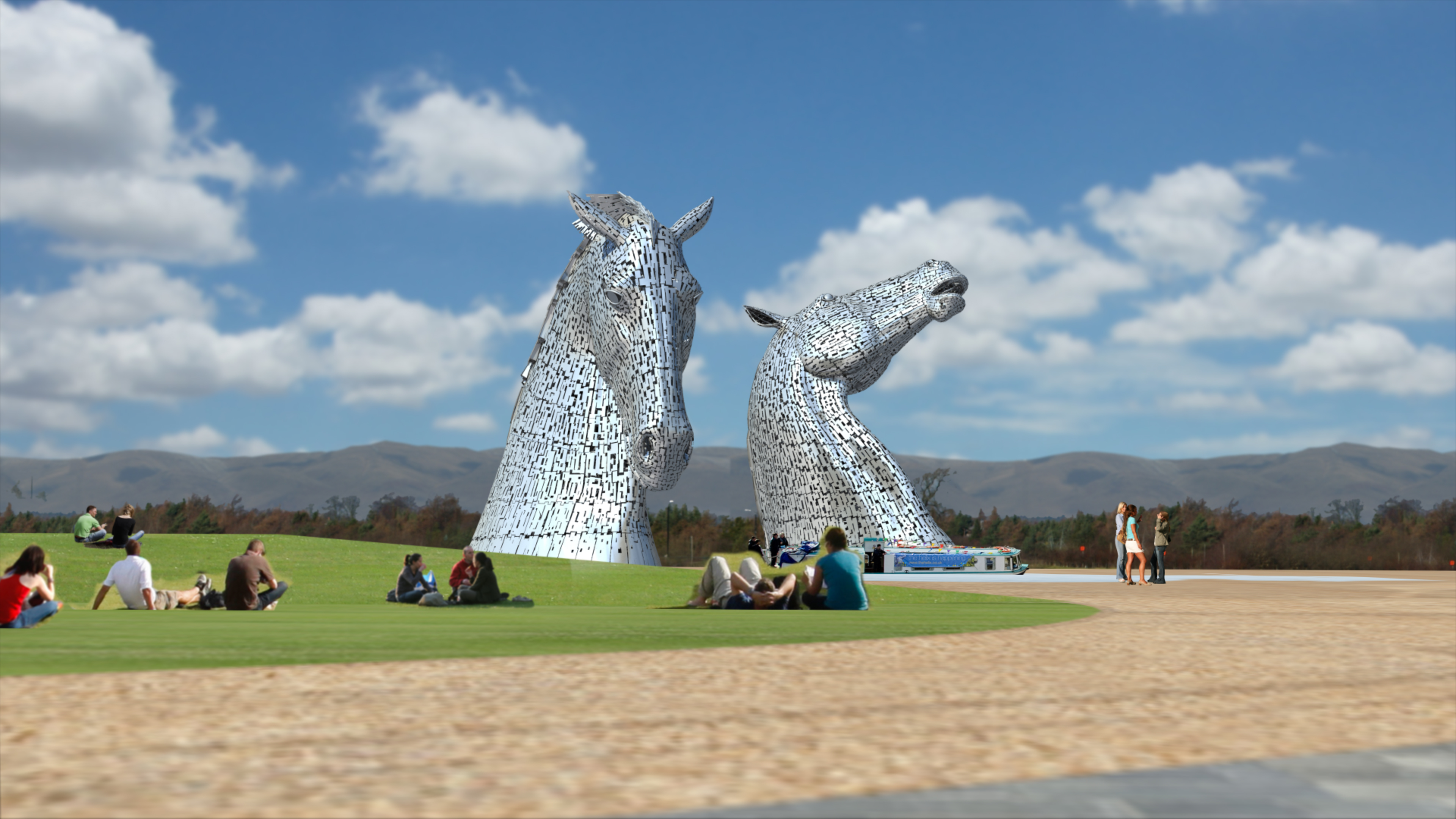 A CGI Image of The Kelpies in Falkirk, Scotland.